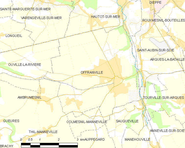 Map of French municipality Offranville